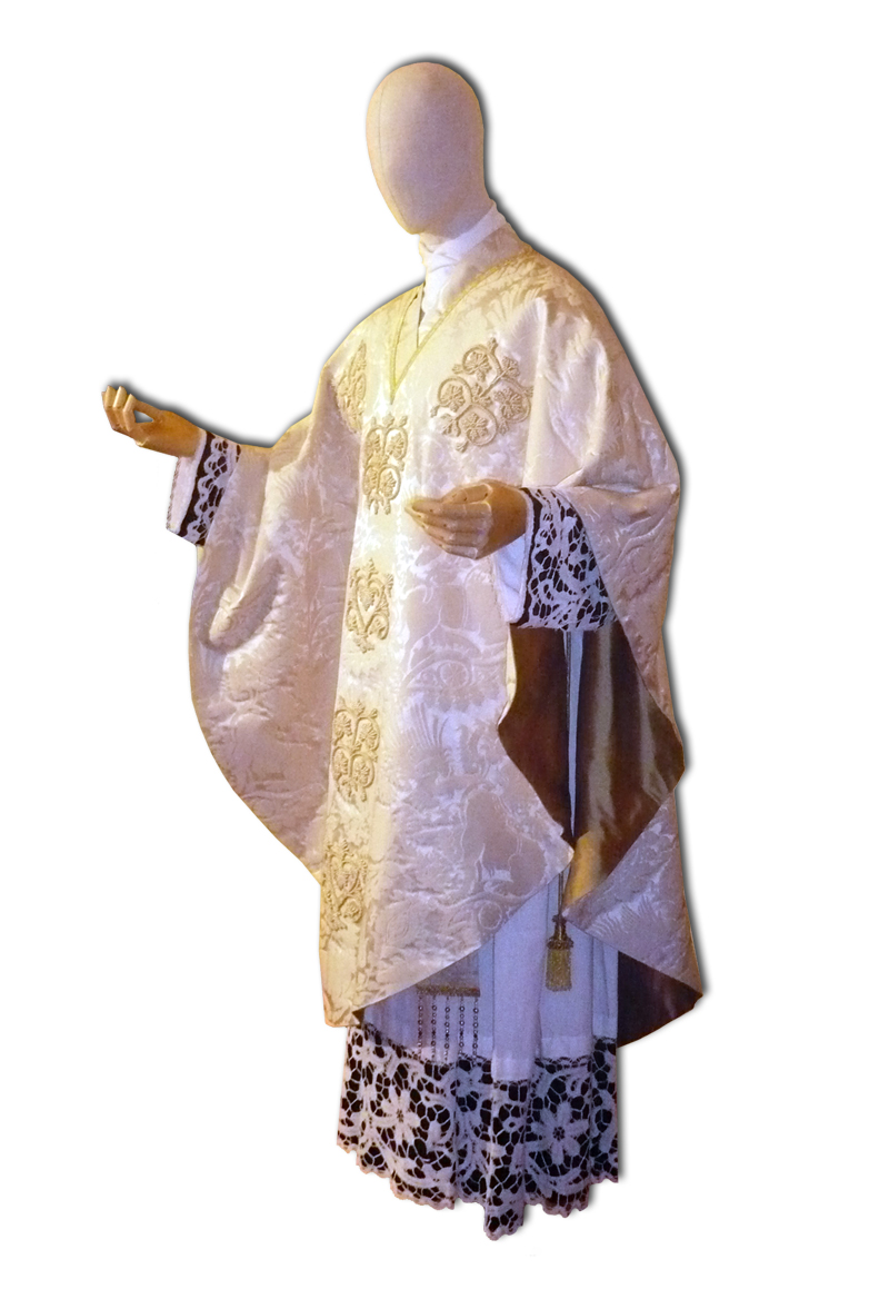 Chasuble